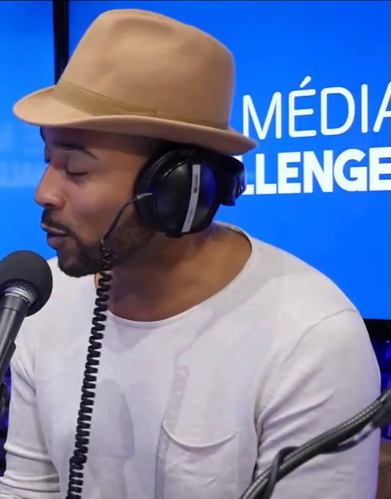 Namura